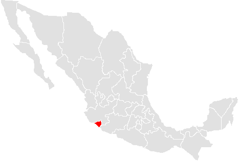 A map of the mexican state of colima made by me